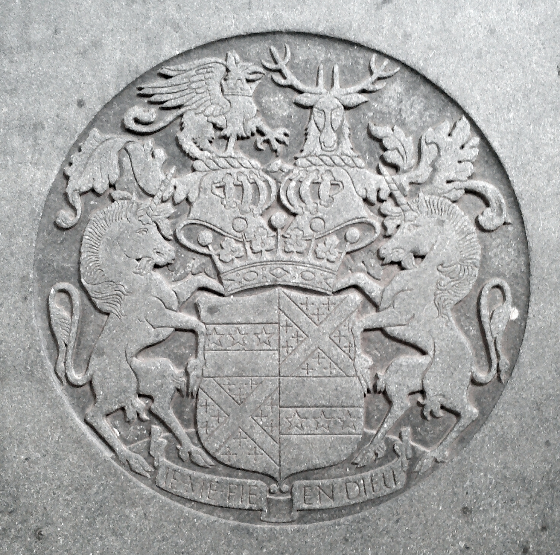 Tardebigge, Worcs: St Bartholomew's Church, detail of the memorial in the chancel floor to Robert George Windsor-Clive, 1st Earl of Plymouth (1857–1923)